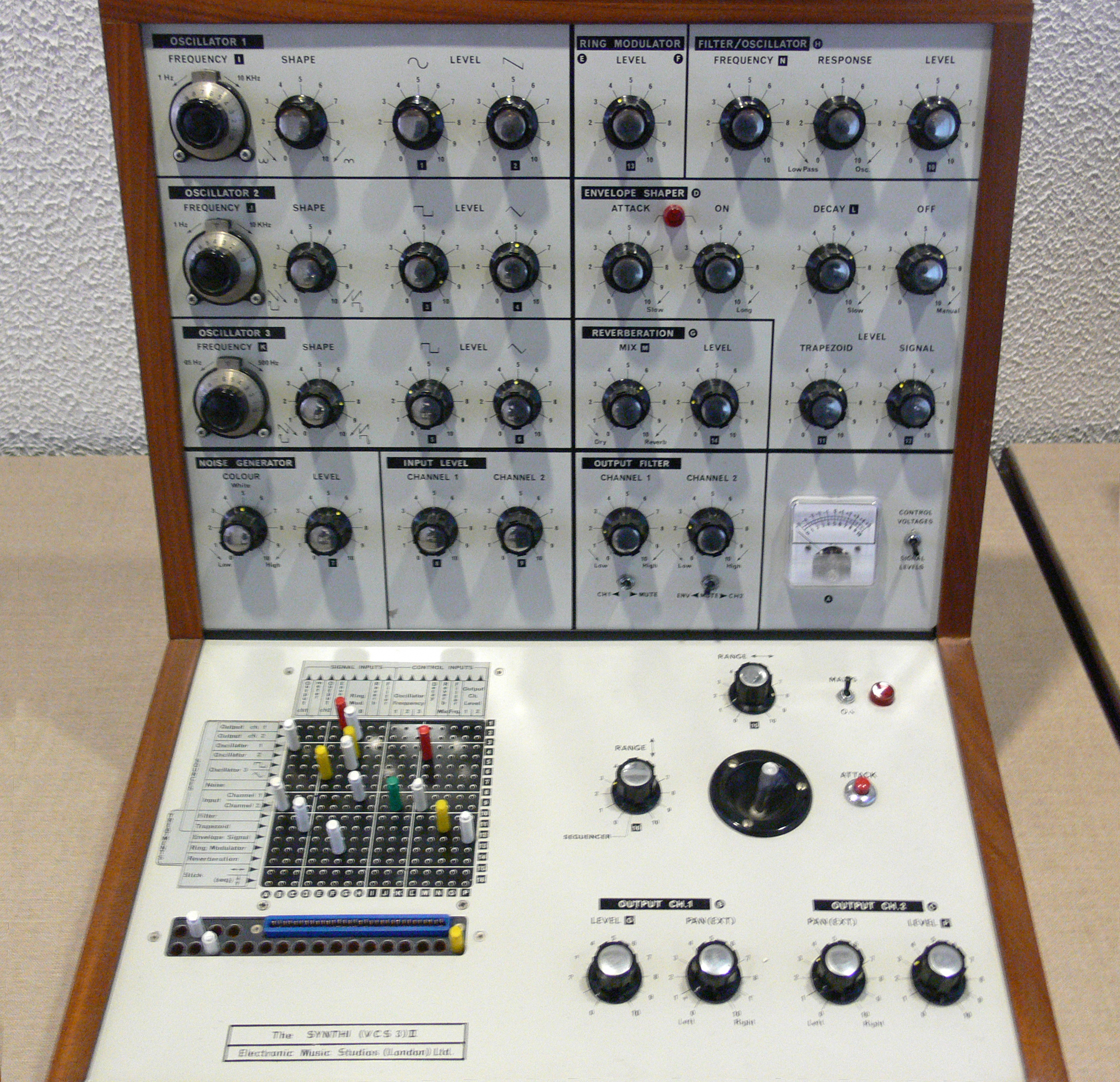 Synthesizer, Electronic Music Studios Synthi VCS3 II (1973) Musikinstrumentenmuseum Berlin